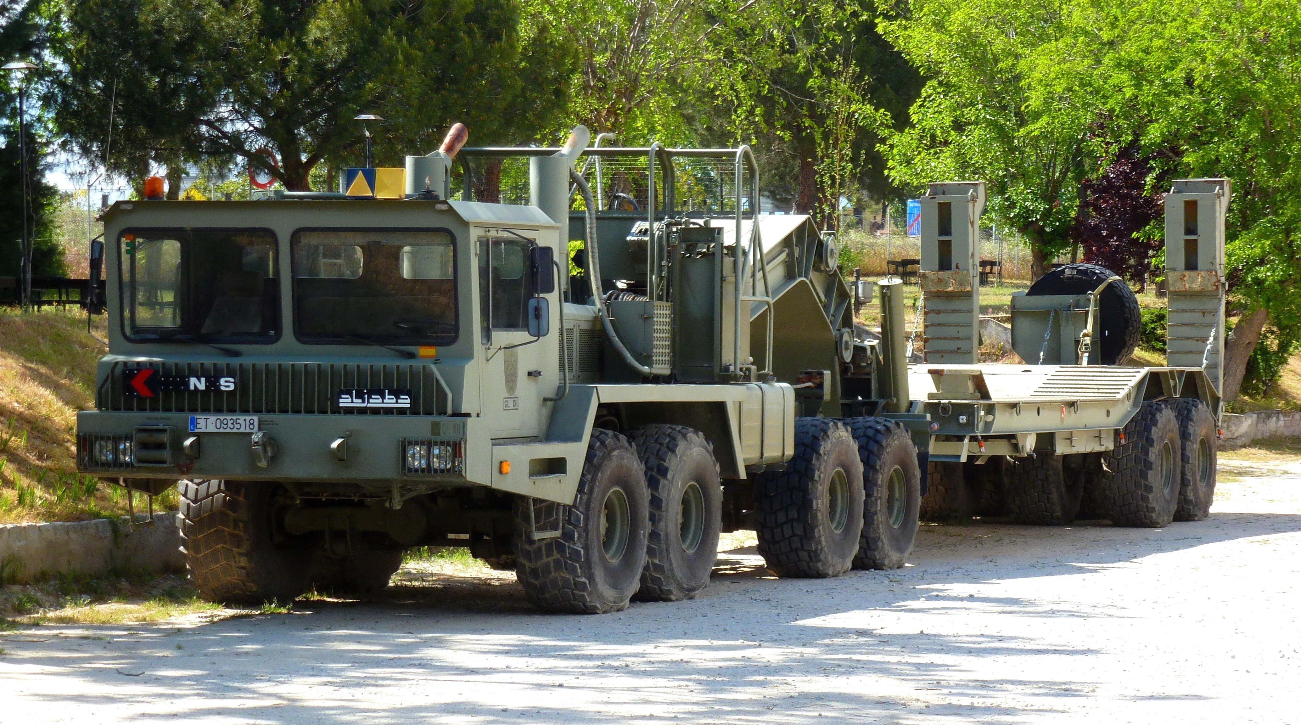 Kynos Aljaba 8×8 of the Spanish Army.